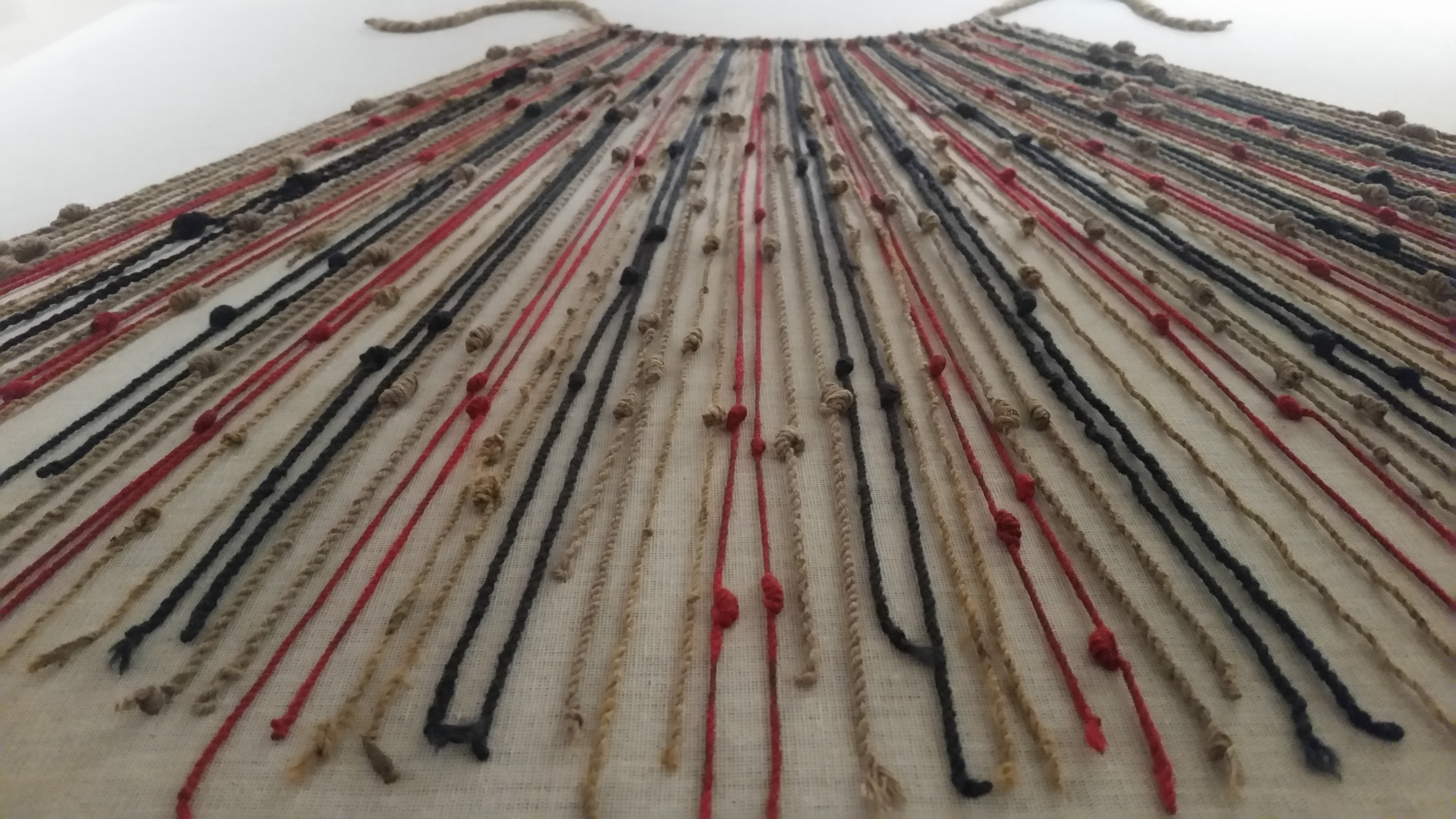 Quipu in the Museo Machu Picchu, Casa Concha, Cusco